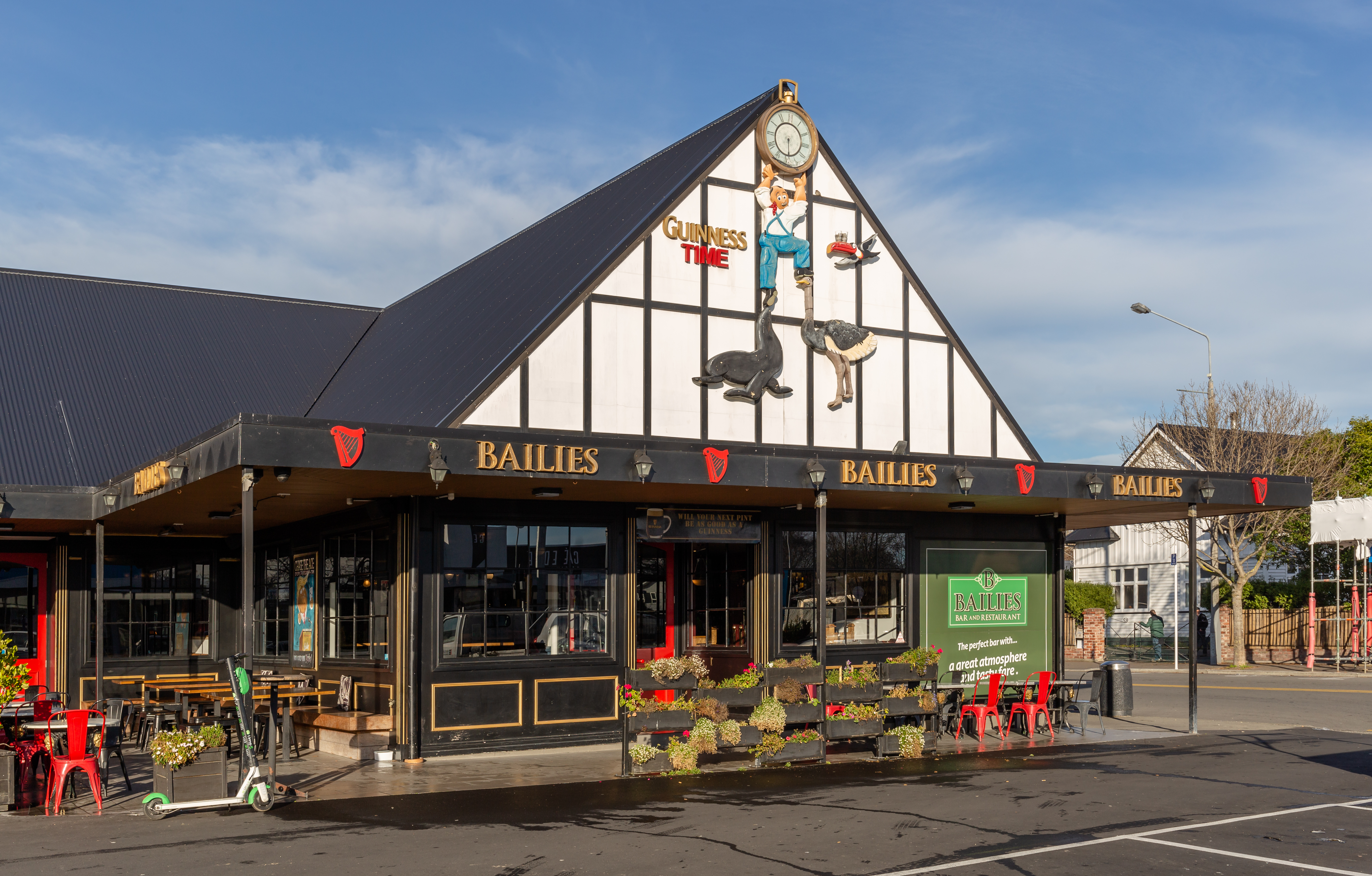 Bailie's Bar, St Albans, Christchurch, New Zealand